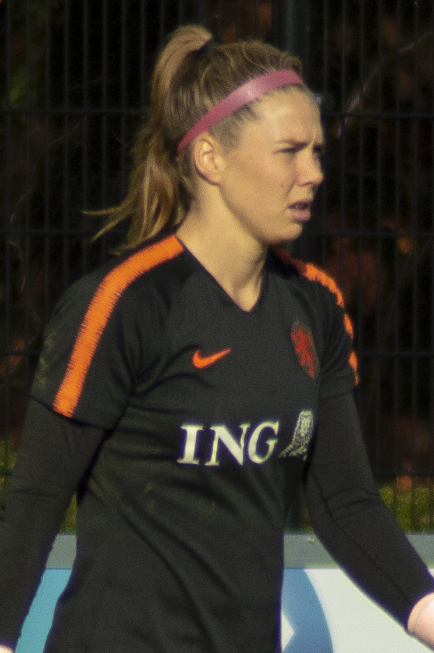 Lize Kop training with the Netherlands women's national football team on November 6, 2018.